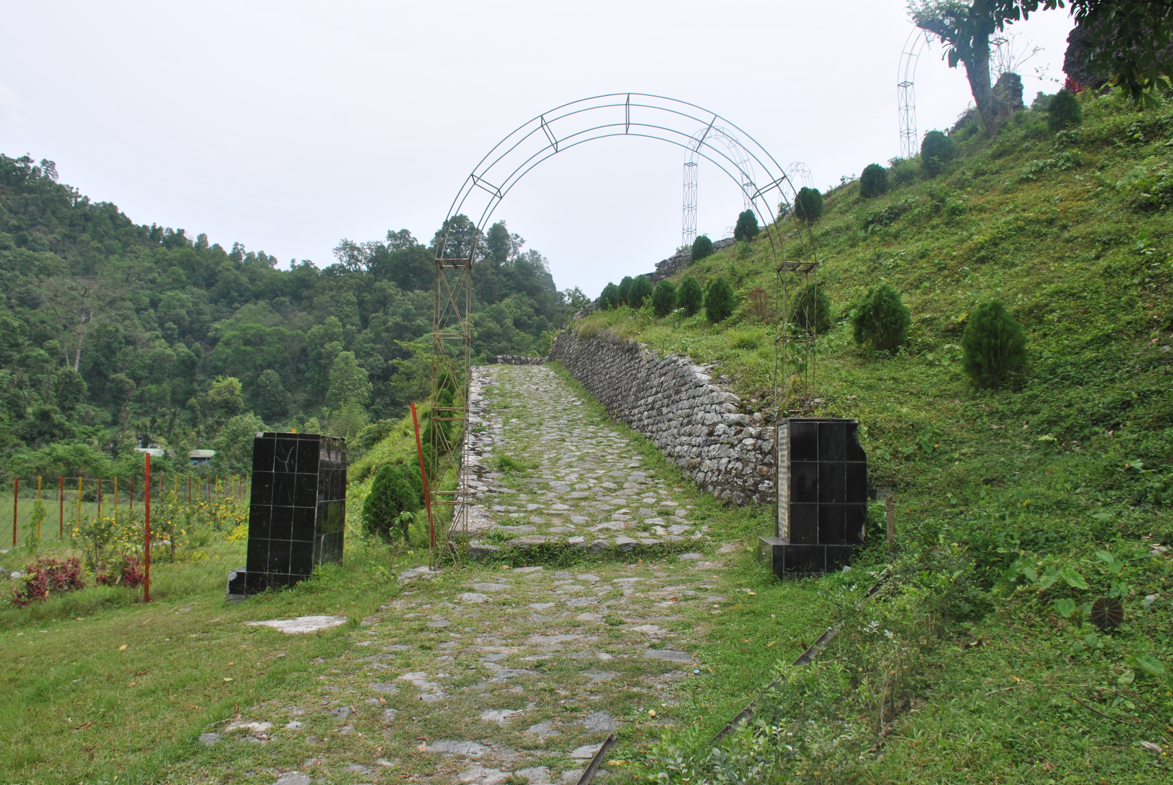 This image was taken in the project Wiki Loves Butterfly.This is the view of Buxa Fort used as Bengal Native Infantry Barrack earlier and later as prison and detention camp by the British Government.